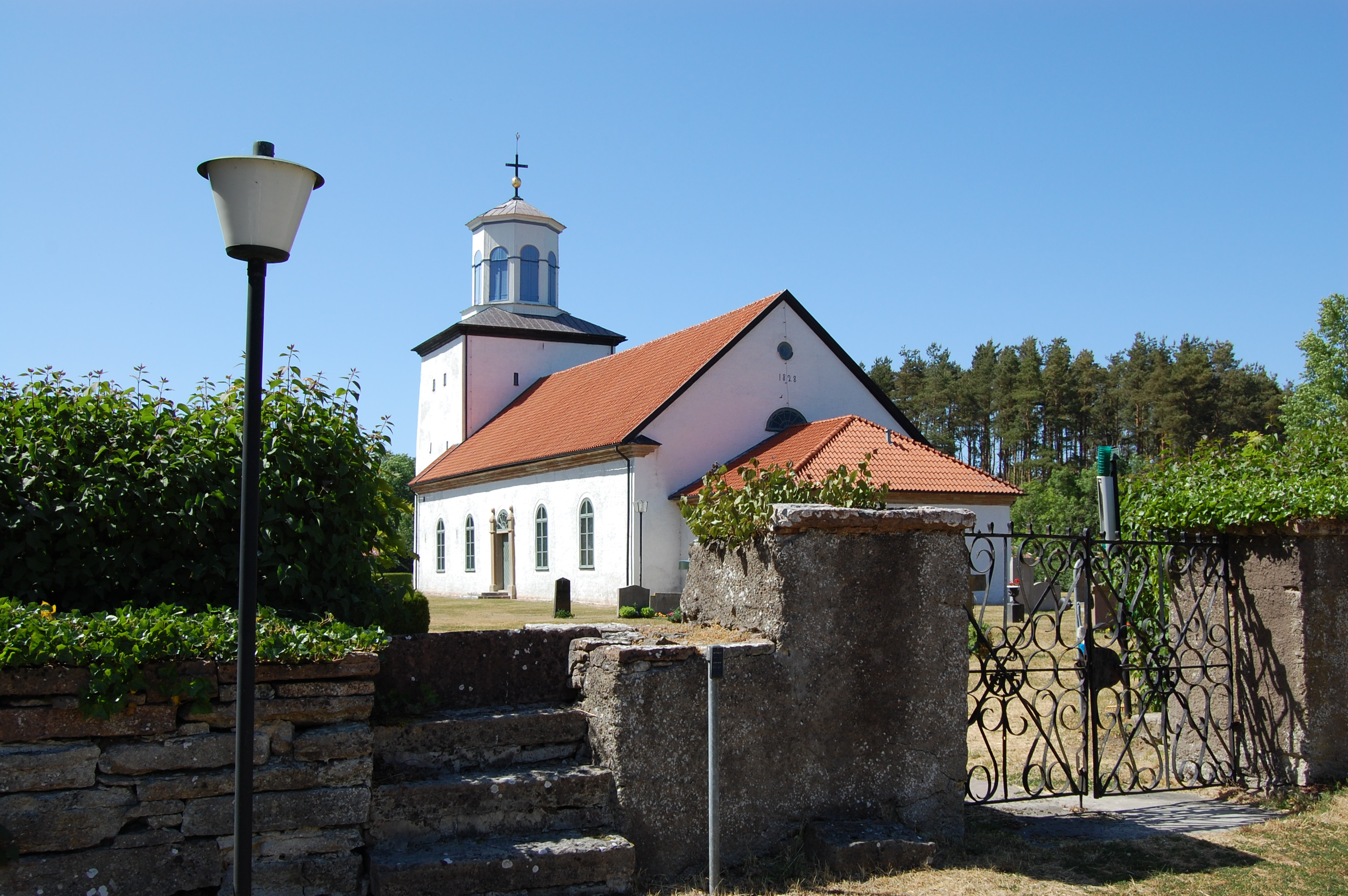 Föra Church.1827-28 commissioned builder Petter Ekholm, Borgholm construction work of new church in empire style after drawings by Carl-Gustaf Blom-Carlsson. The west tower with its different floors was preserved.